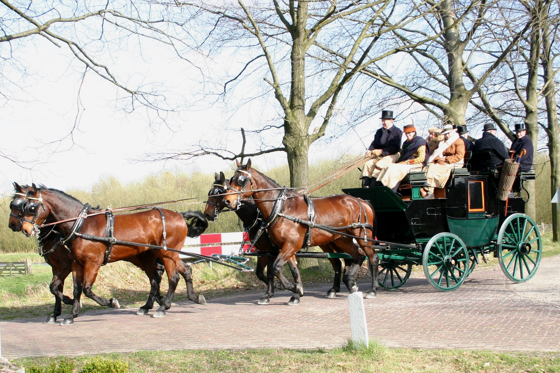 A Brewster Park drag seen in spring 2008 in Valkenswaard (Netherlands) drawn by Cleveland Bay horses.